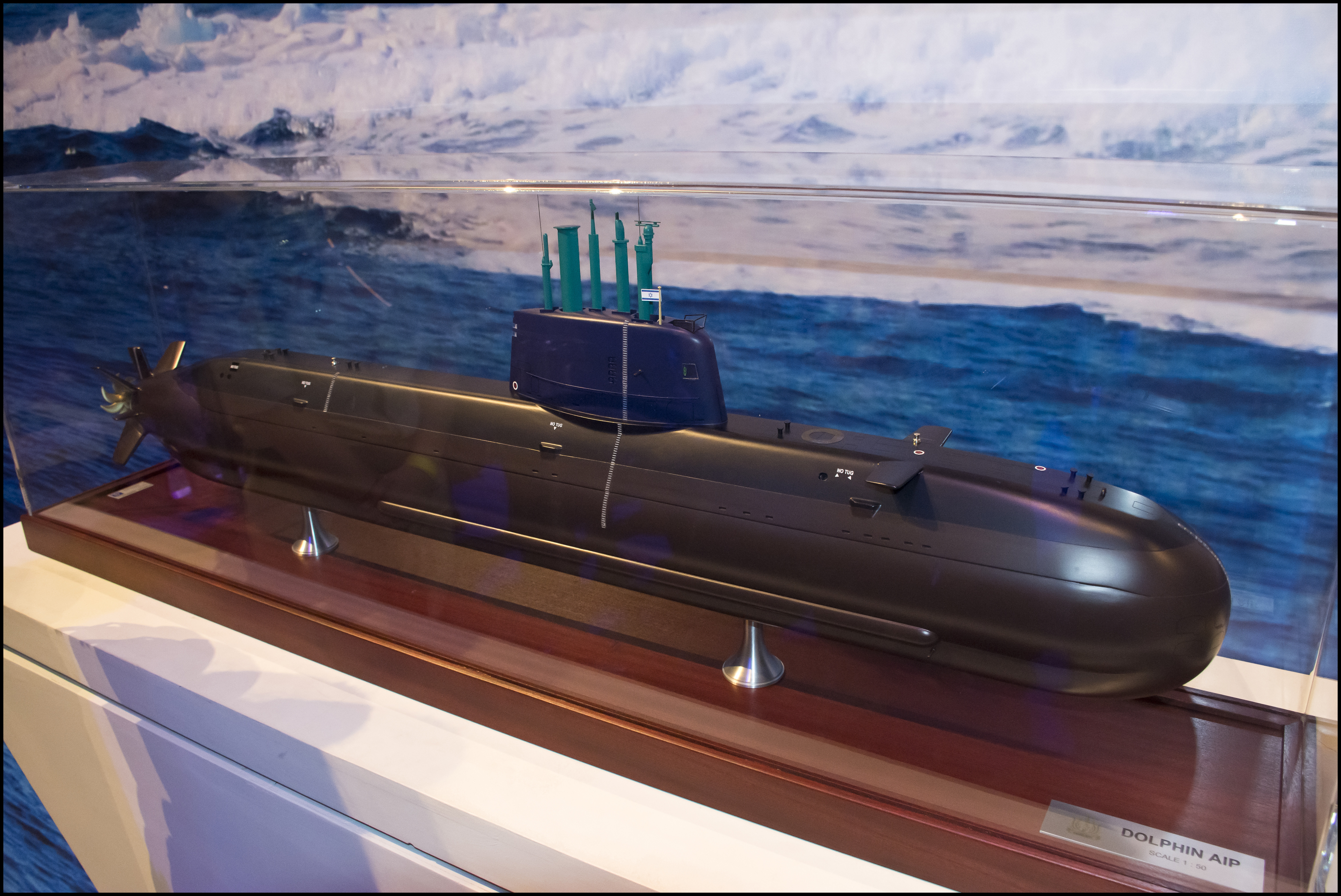 Scale model of Dolphine AIP class submarine, Our IDF 70, Israel